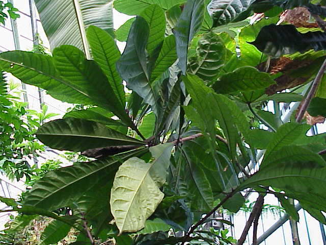 Species: Amphitecna macrophylla Family: Bignoniaceae Image No. 2